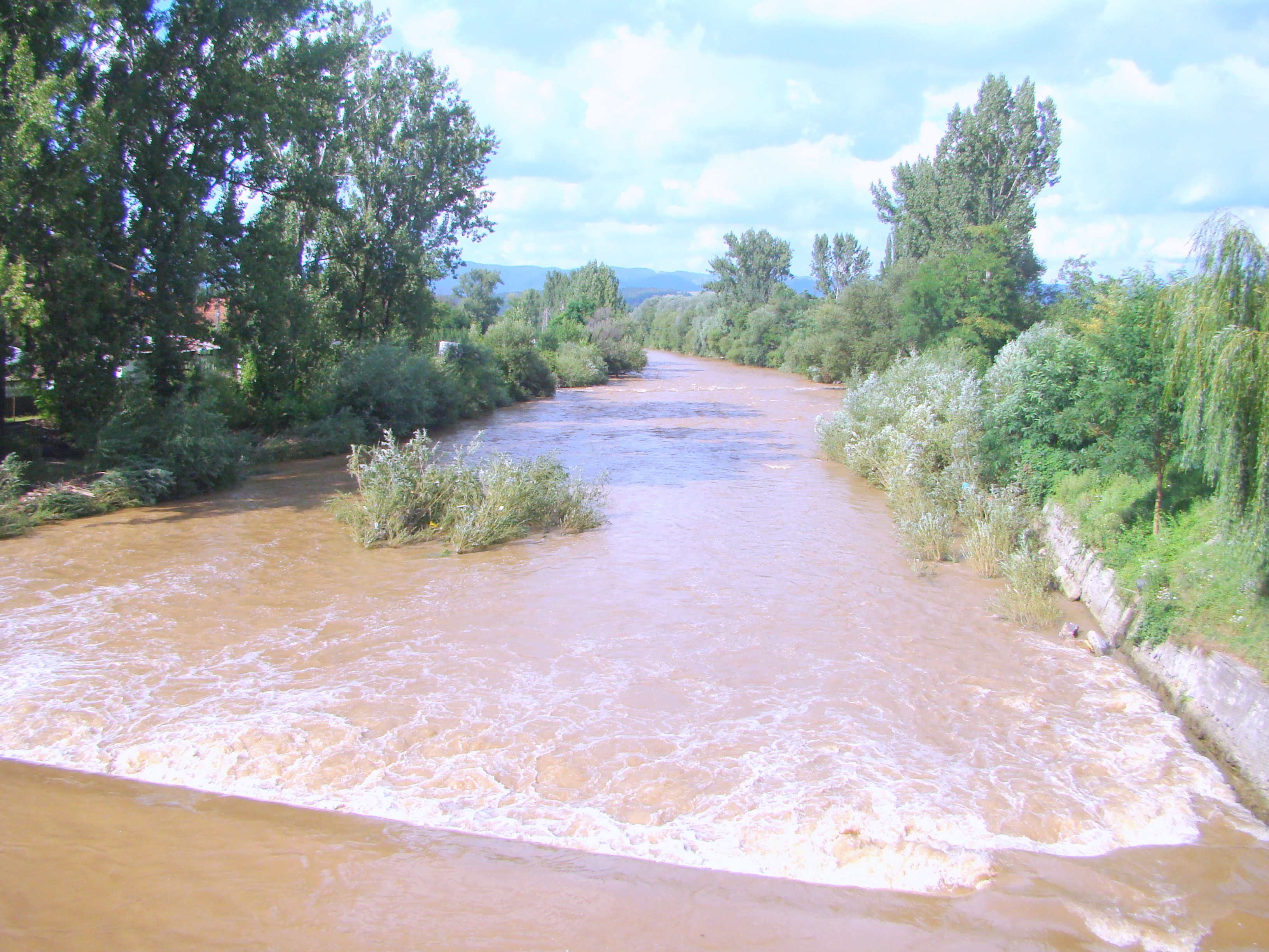 Vadu Crișului, Bihor county, Romania